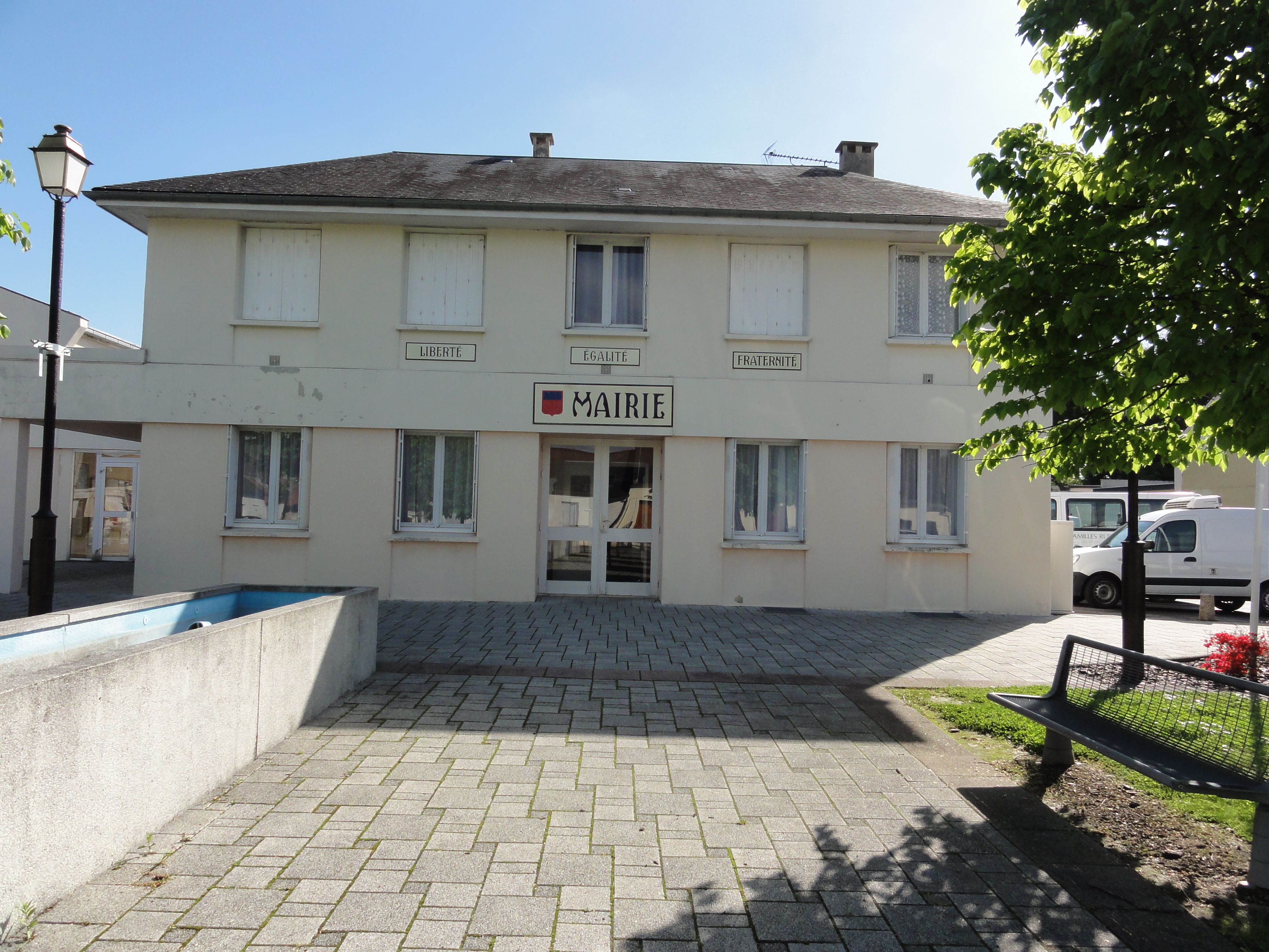 Crépy (Aisne) mairie